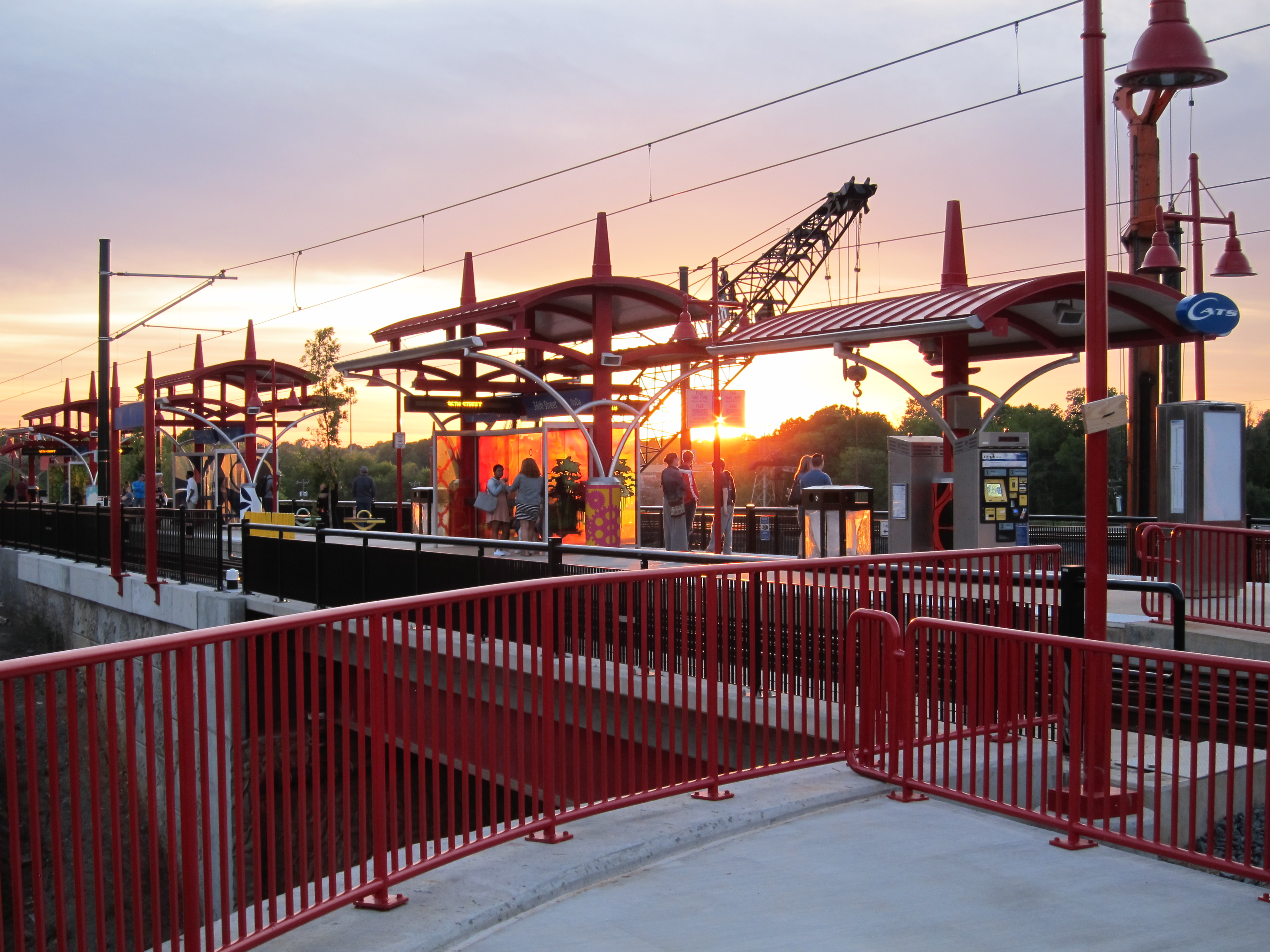 People waiting on the platform, at the 36th Street LYNX Blue Line station, at sunset. Mobile construction crane in backdrop.